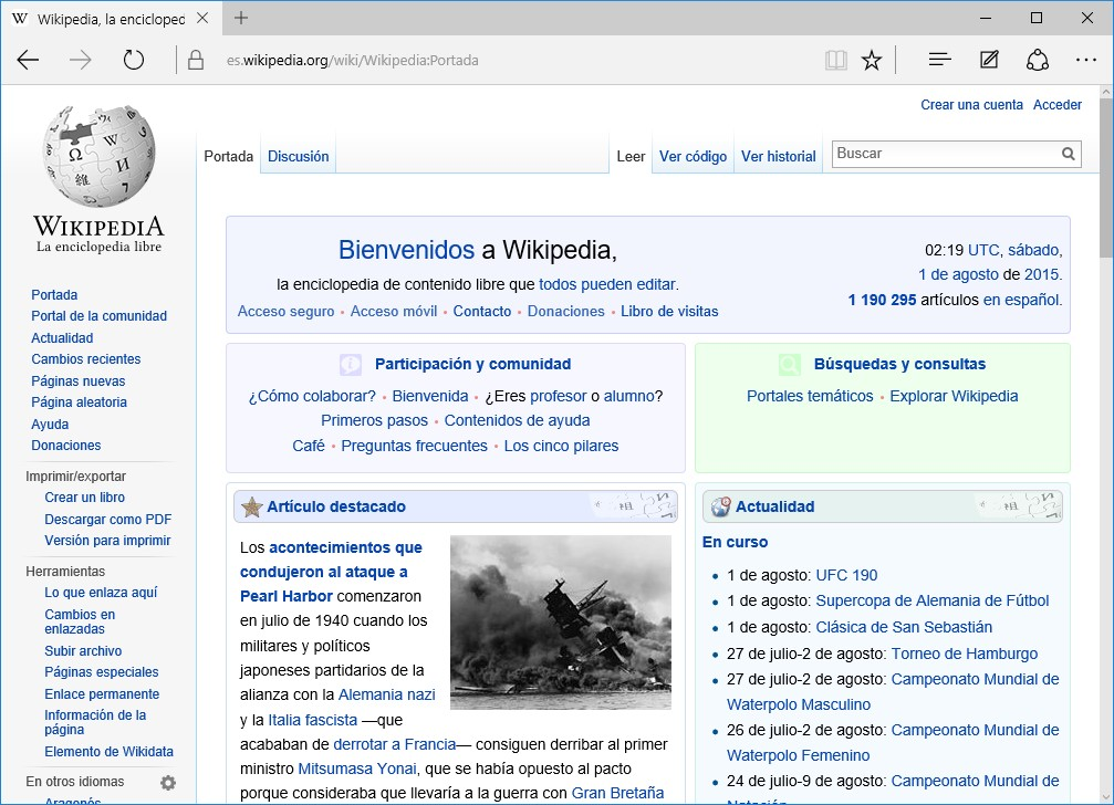 Microsoft Edge for Windows 10, showing Spanish Wikipedia's main page.